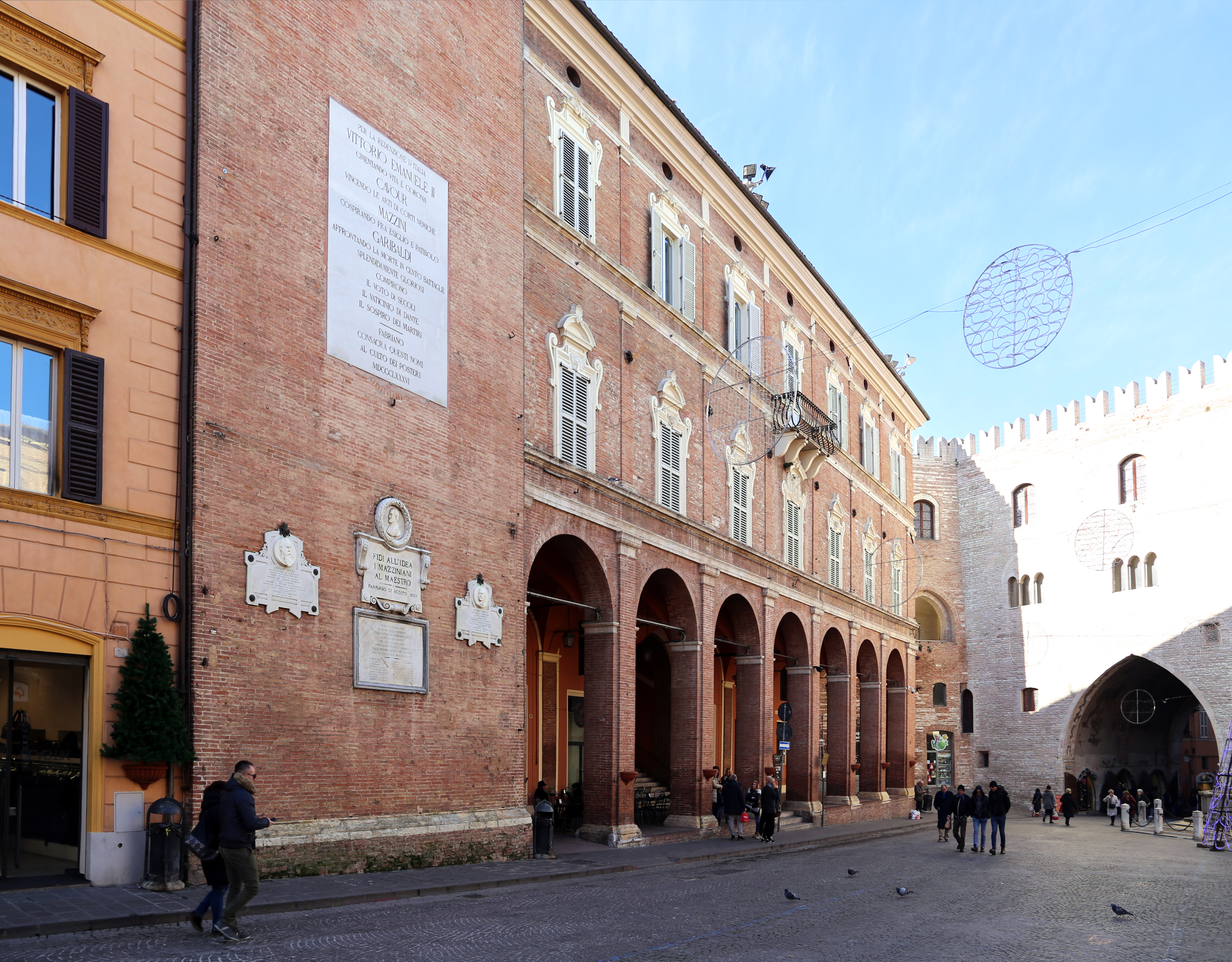 Fabriano